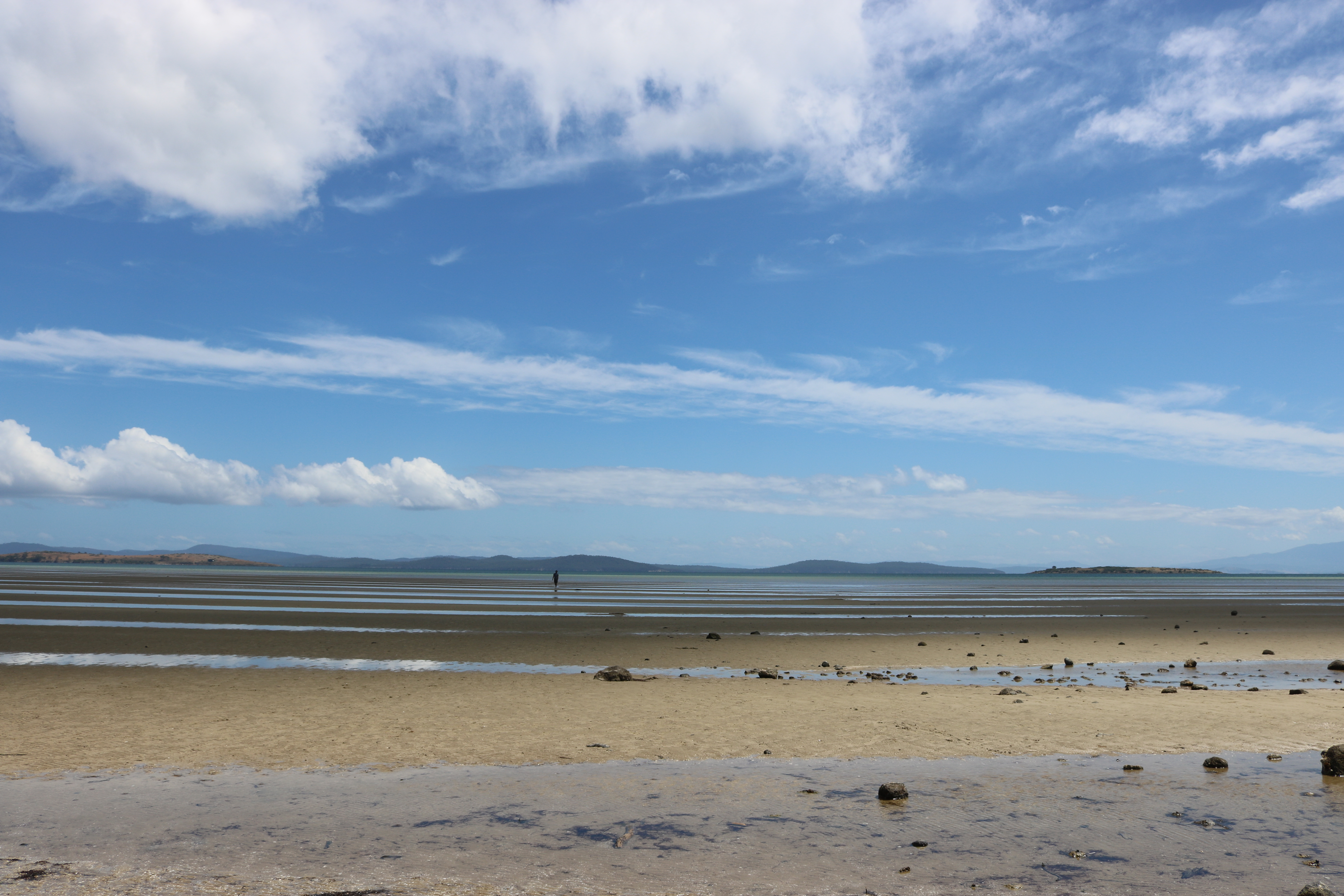 Location: Dunalley Beach, Tasmania, Australia